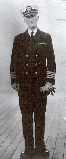 A shot of United States Navy Captain and Governor of American Samoa MacGillivray Milne.